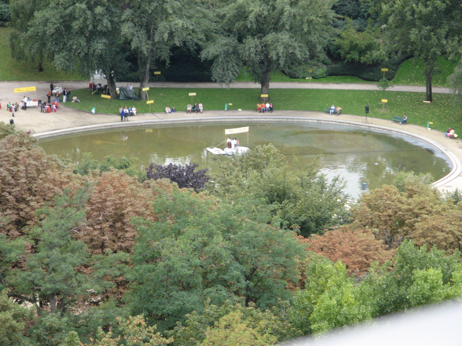 Parc Kellermann, Paris, France